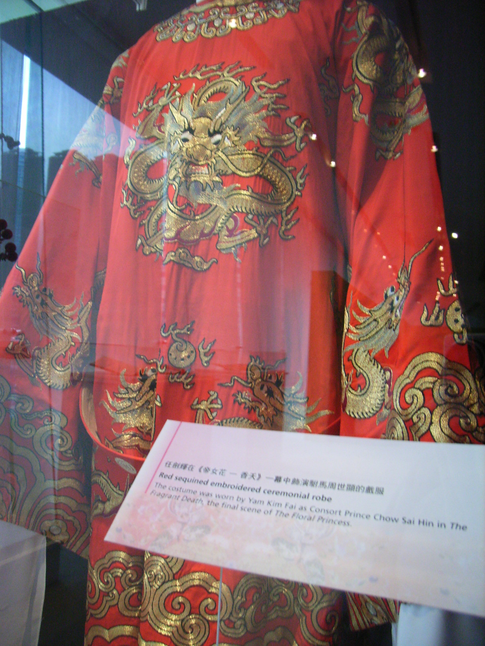 任劍輝和白雪仙的粵劇戲寶 1957年首演 帝女花: 樹盟 Oath under the twins tree 辭殿 Depature 香劫 Princess' sufferings 庵遇 Reunion at the nunnery 上表 Negotating with the Qing Emperor 香夭 The fragrant death 殉國